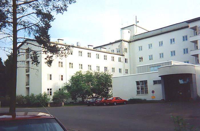 Päivärinne hospital in Muhos, Finland